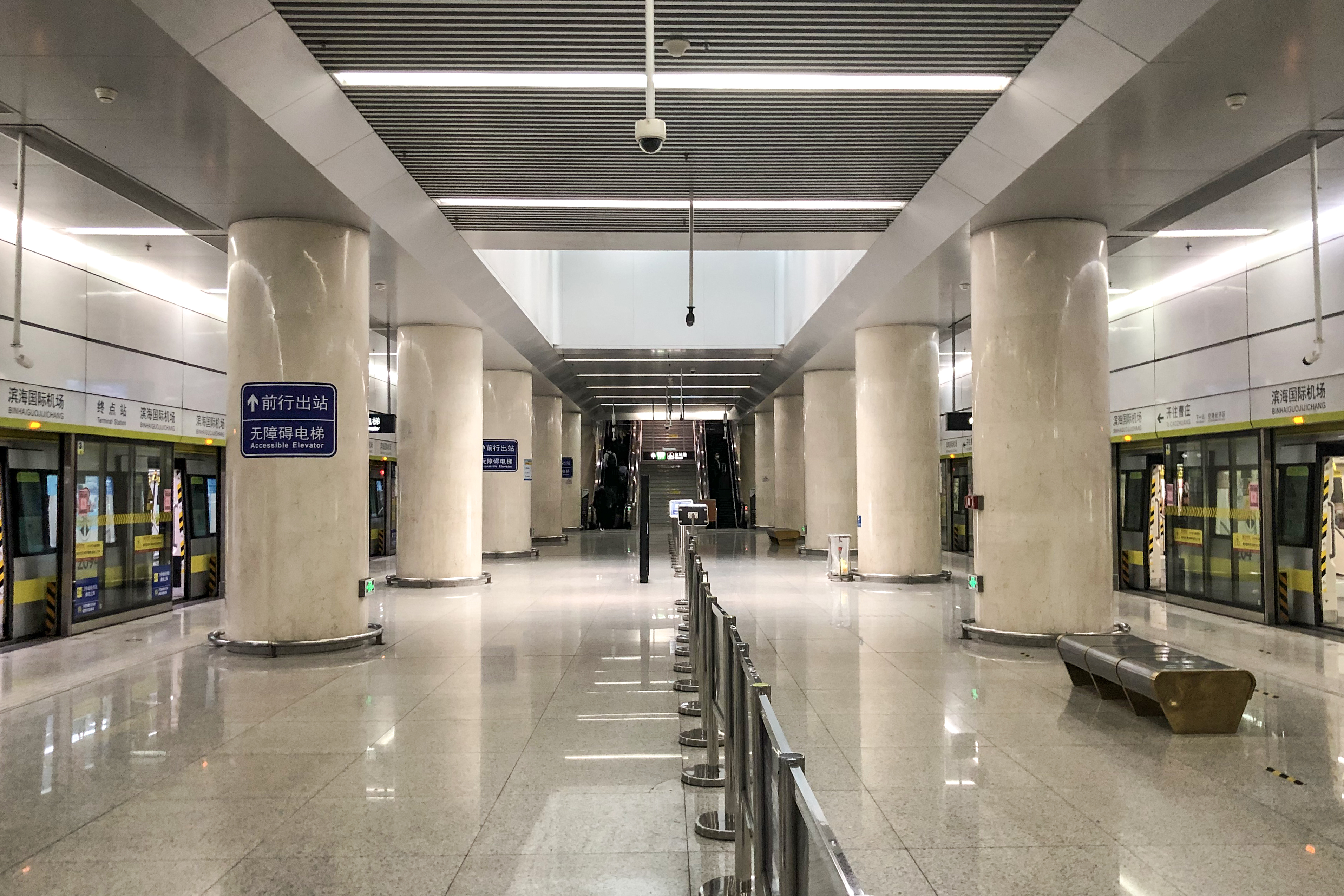 Be serious okay? TSN is an international airport!